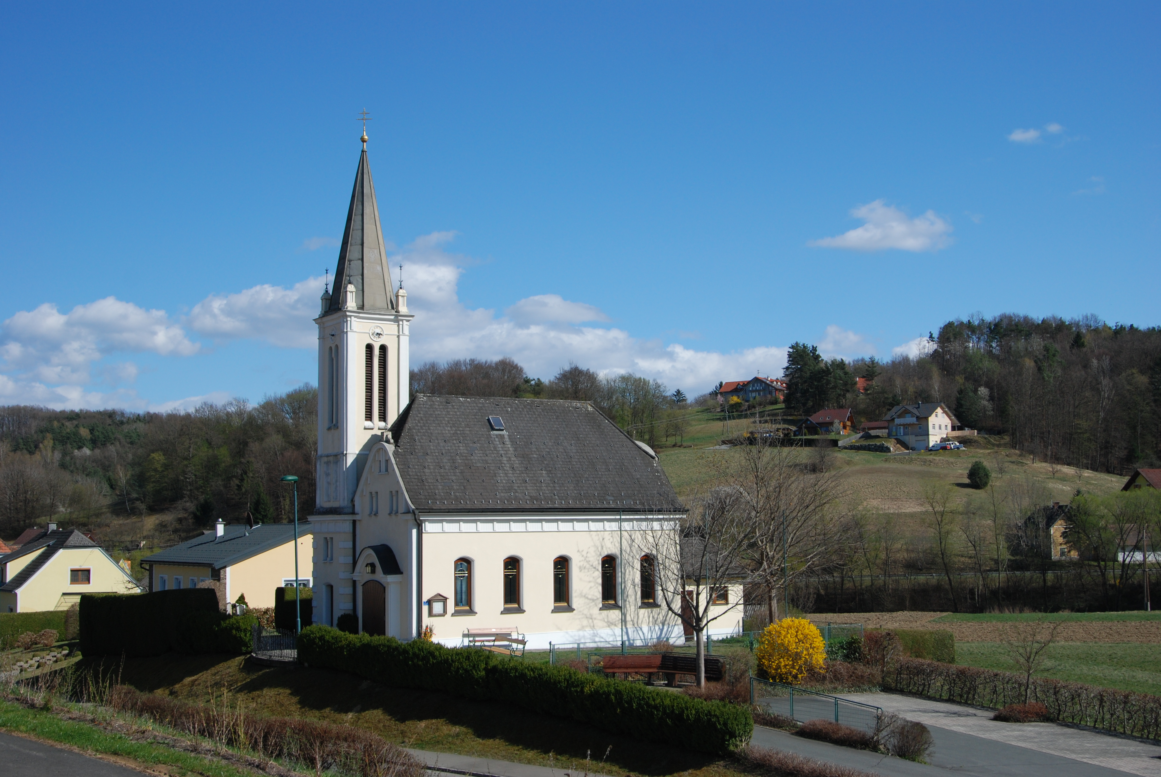 Kirche Minihof-Liebau